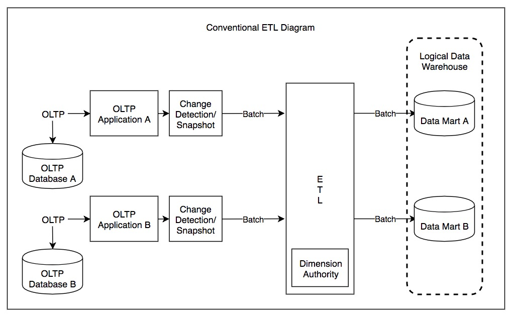 Diagram depicting the flow of conventional ETL. This was recreated from the Data Warehouse ETL Toolkit by Ralph Kimball and Joe Caserta.